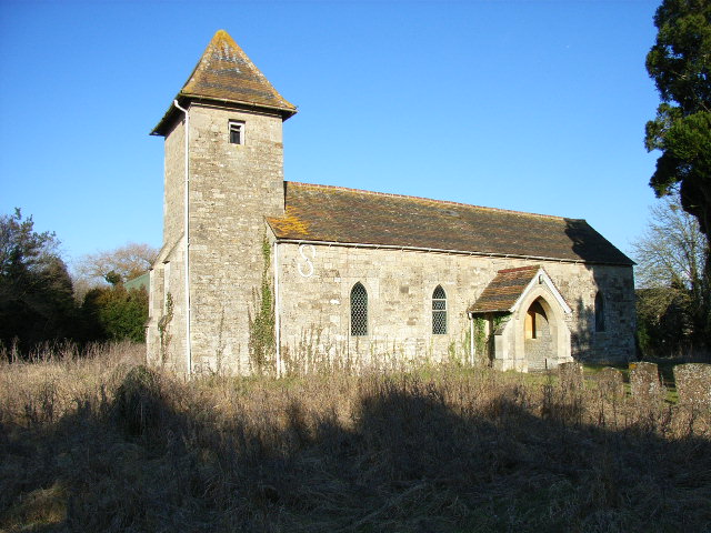 Holy Trinity parish church, Godington, Oxfordshire, seen from the southwest